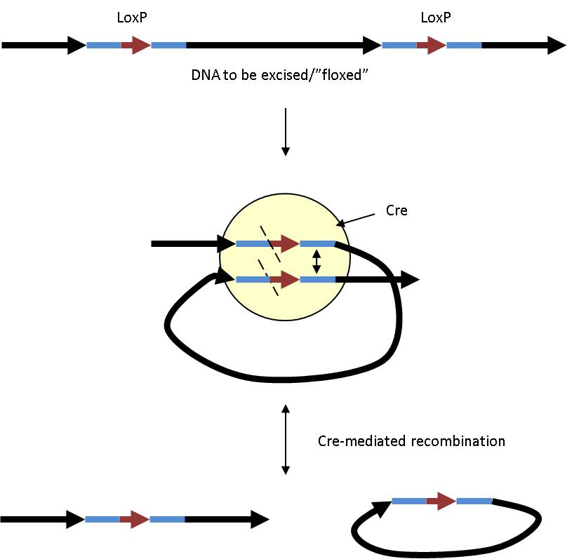 This figure shows Cre-mediated recombination for parallel LoxP sites